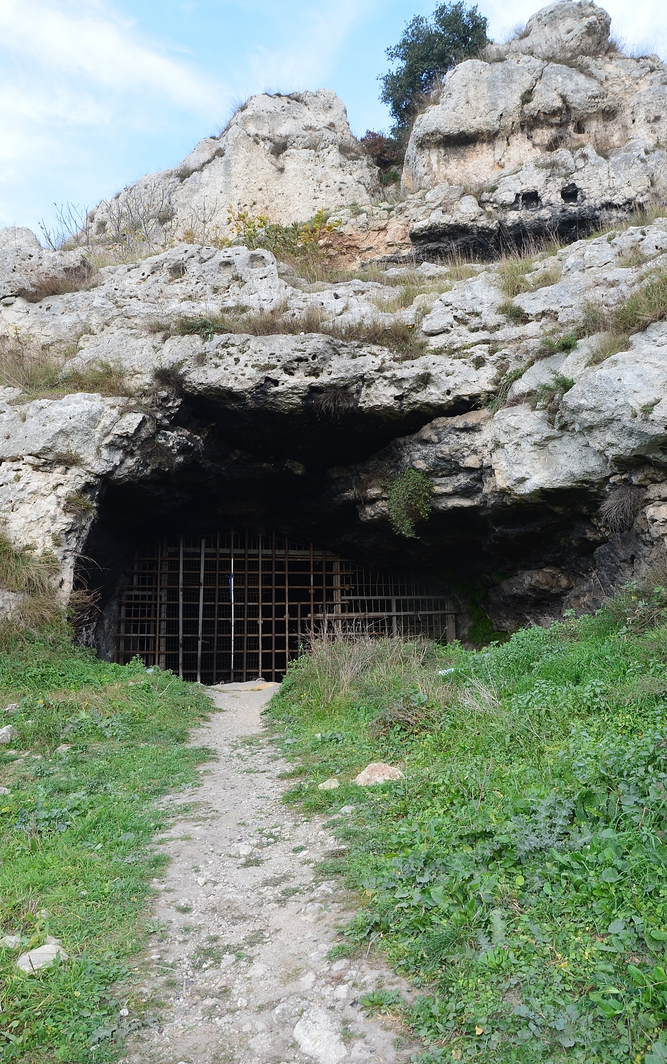 Trail and barred main entrance at lower cave of Yarımburgaz Cave in Başakaşehir, Istanbul, Turkey